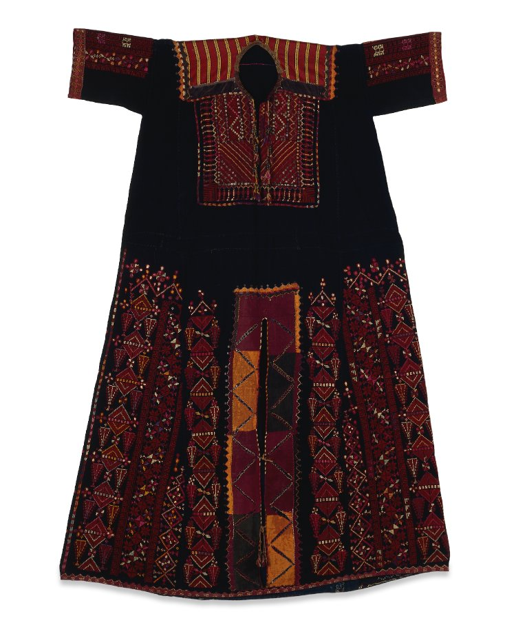 Wedding dress, from Bayt Dajan, ca 1920. Collection of Shelagh Weir